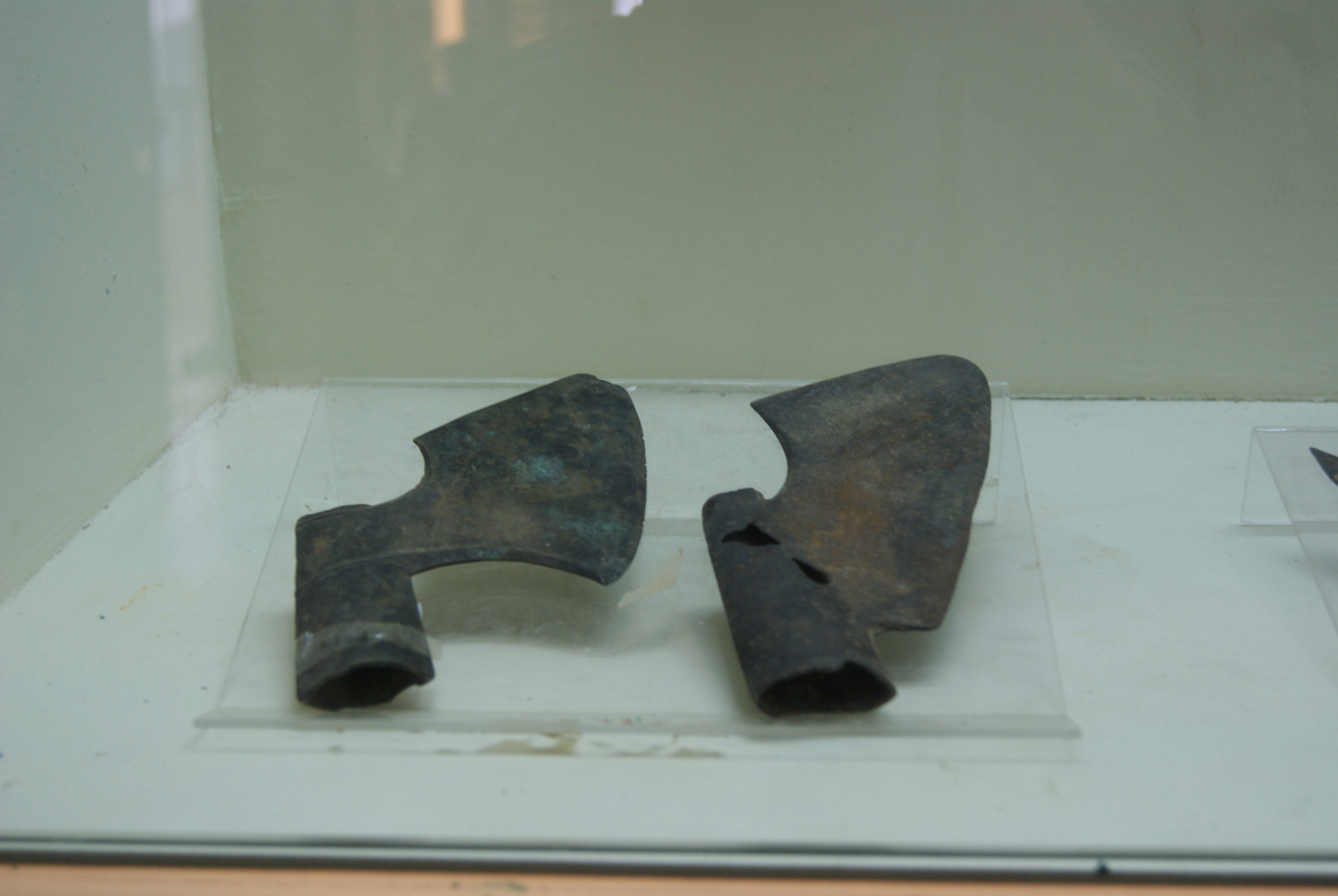 Axes